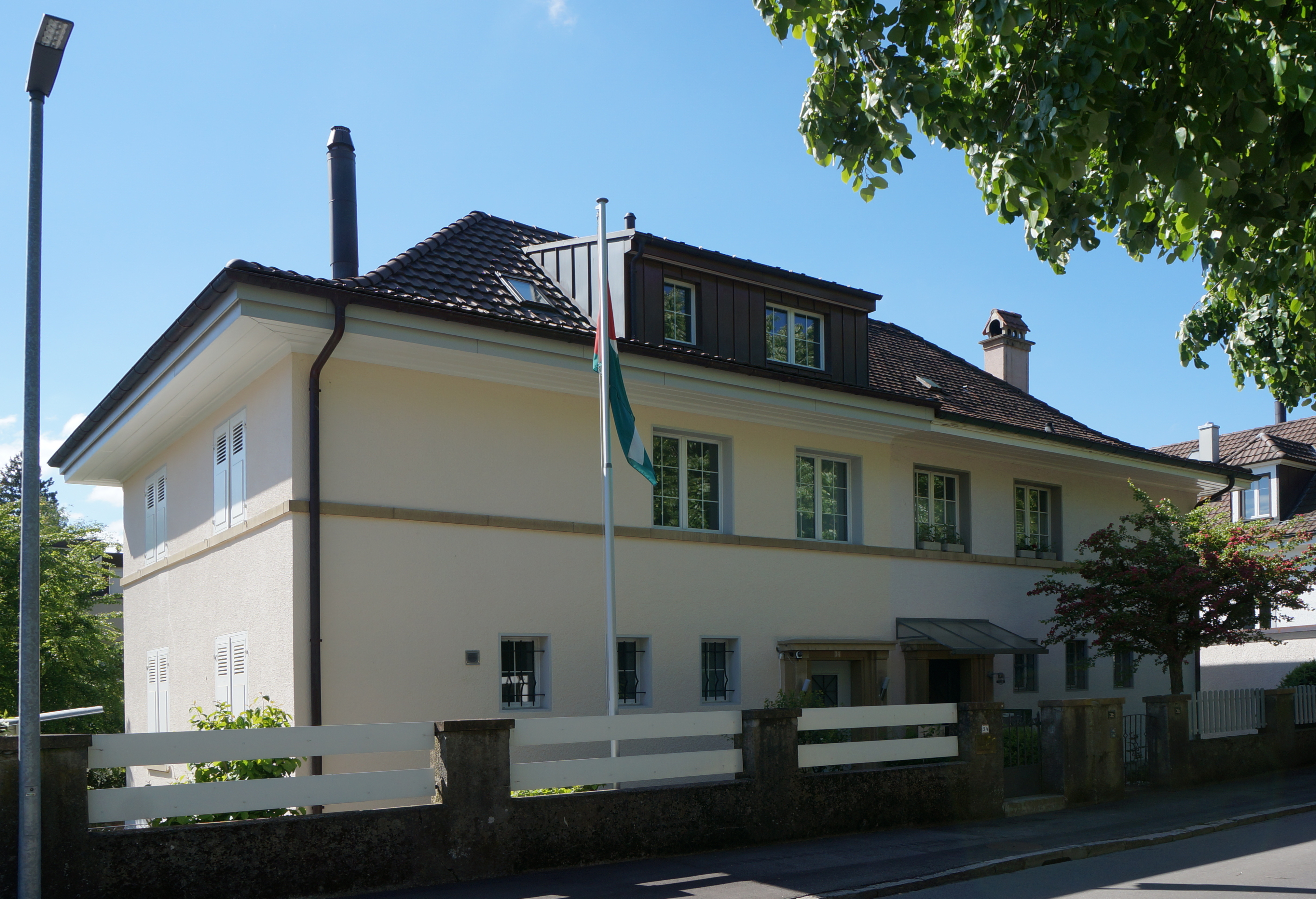 Bern, Lombachweg 34-36. Palestinian Embassy in Bern.